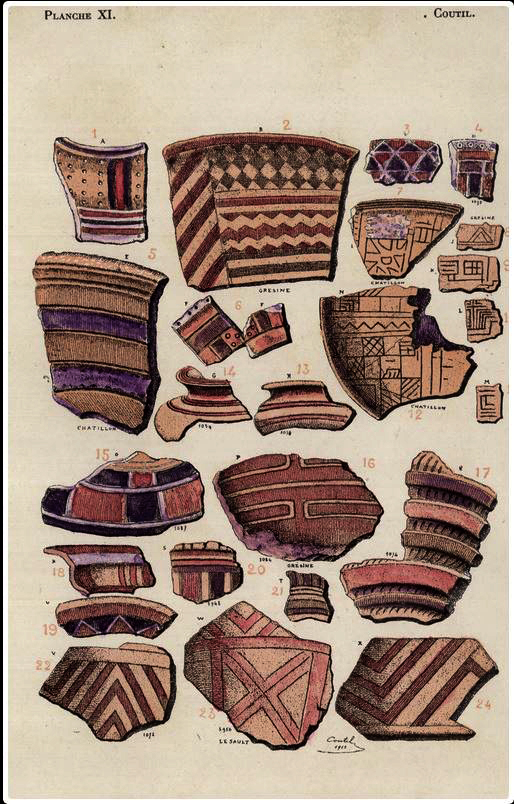 Ceramics of the pile dwellings of Lake Bourget reproduced by Léon Coutil (1856-1943) circa 1915. These palafittes are part of the Prehistoric pile dwellings around the Alps and are classified as World Heritage UNESCO Sites since 2011